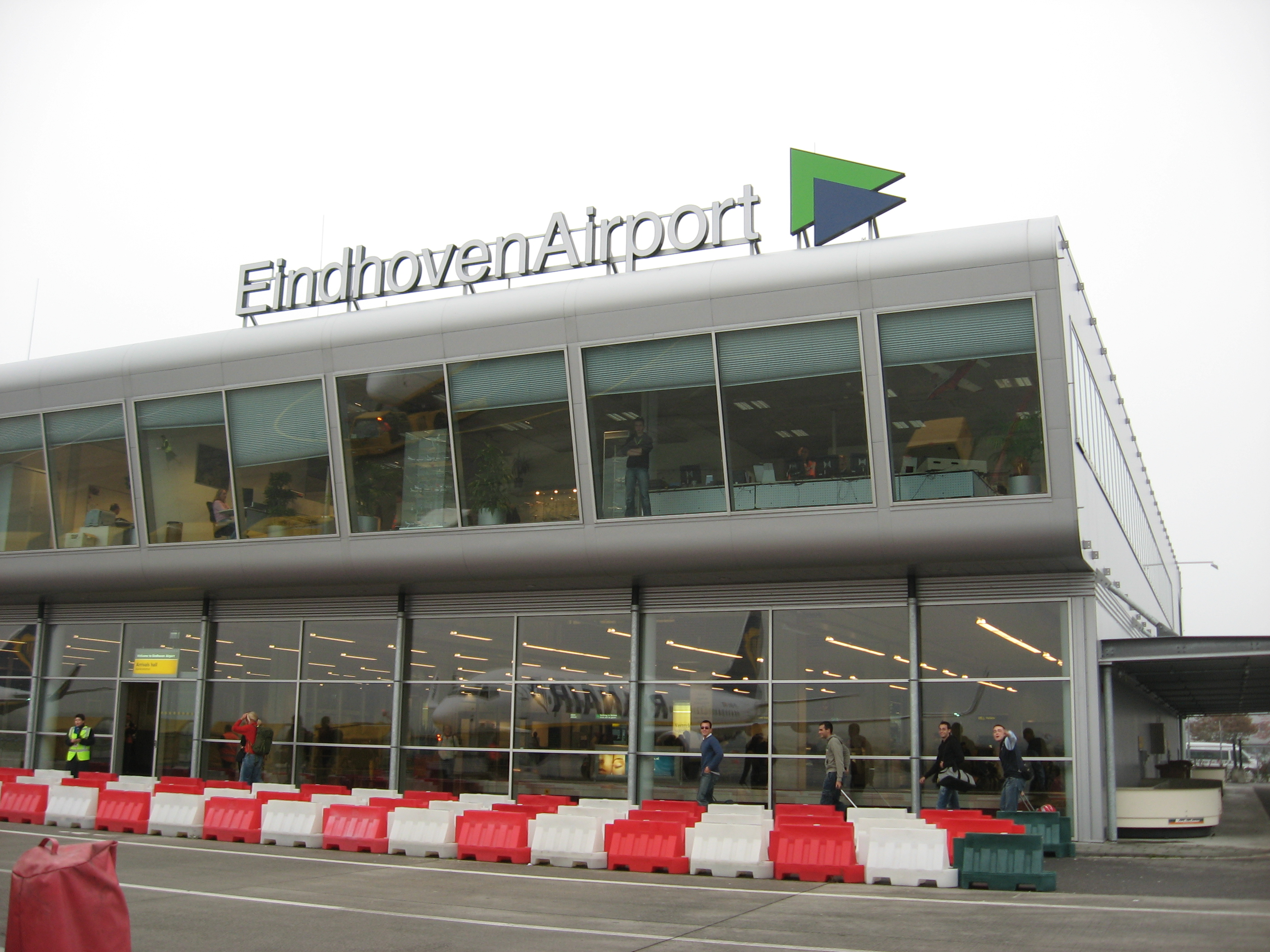 Eindhoven Airport